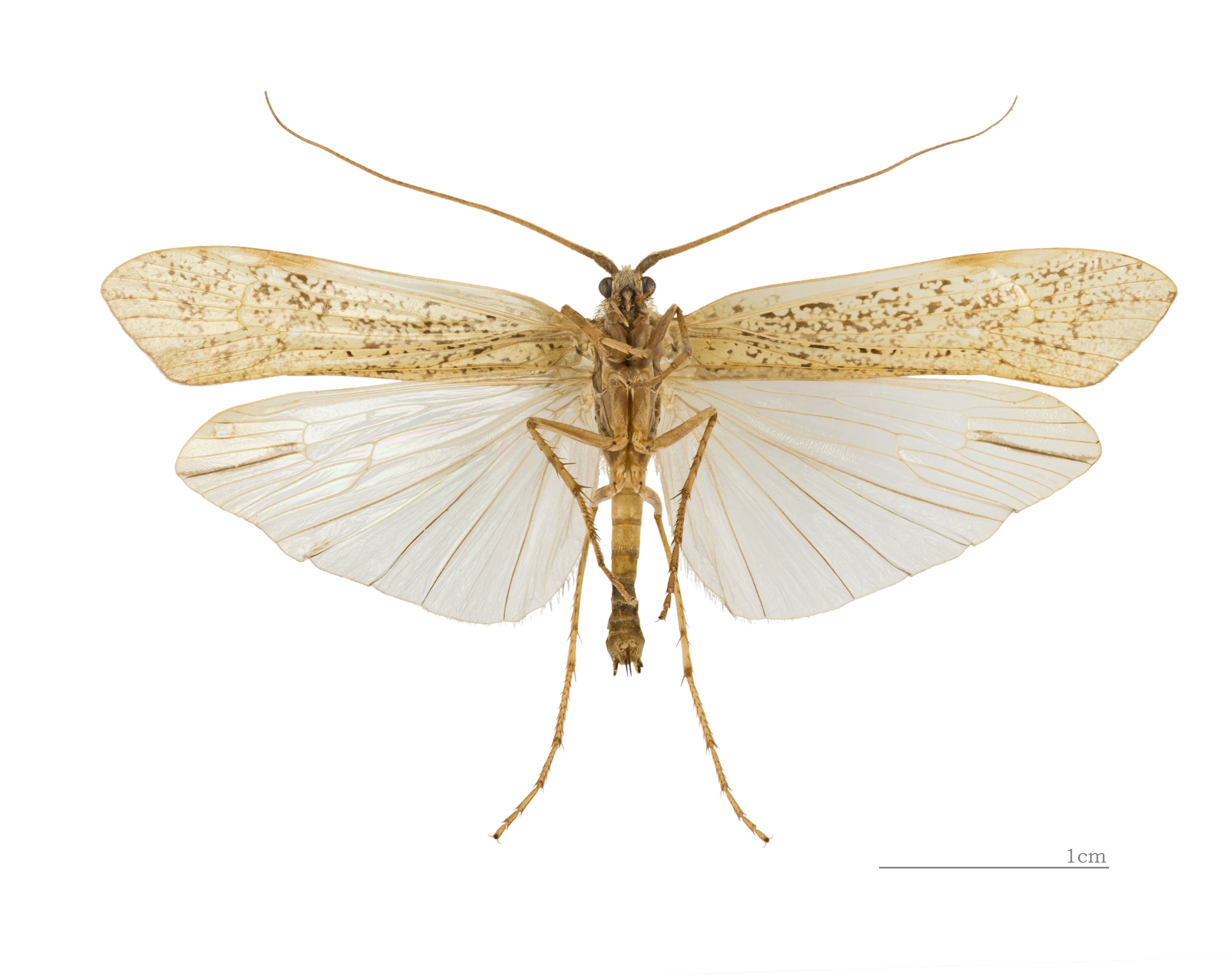 Grammotaulius nigropunctatus. △ Ventral side.